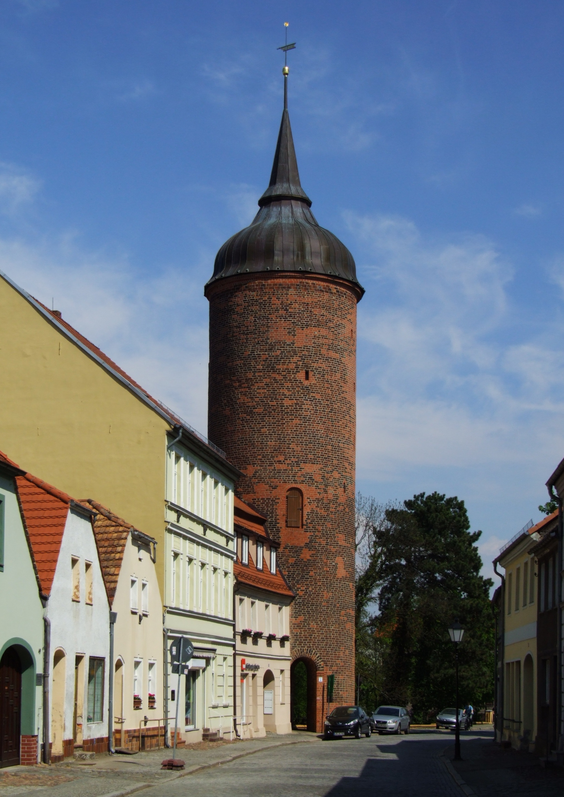 Luckau (Łukow), Brandenburg. Red tower (Roter Turm)